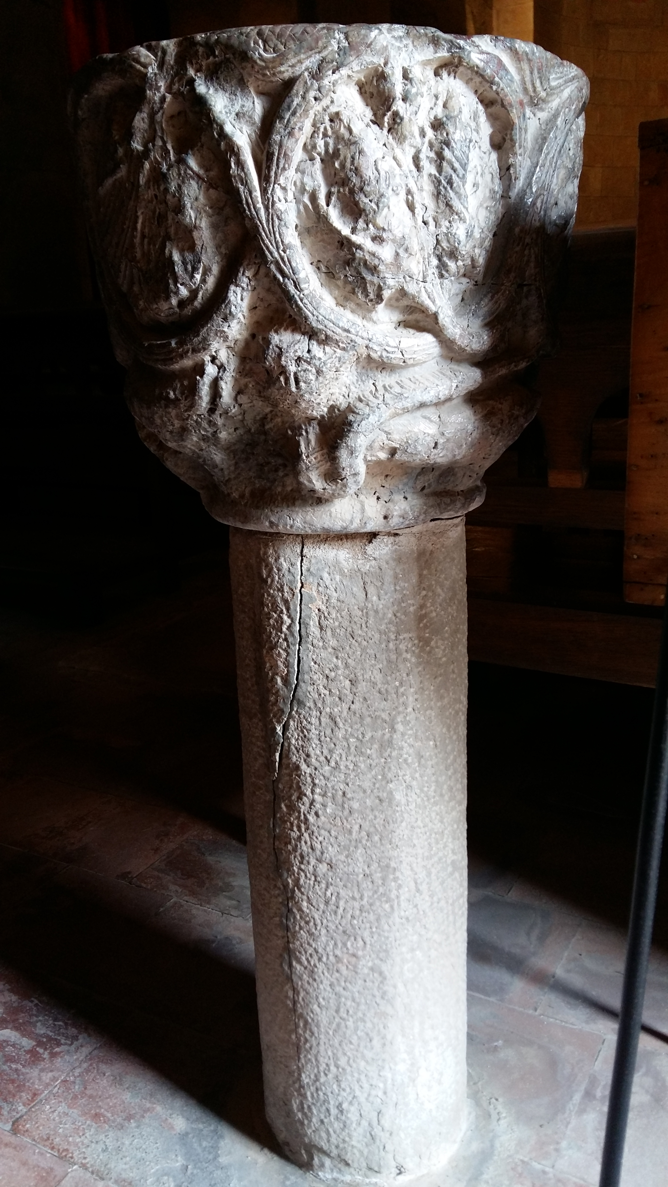 Romanesque church Sant Salvador de Bianya (Catalonia) - holy water font